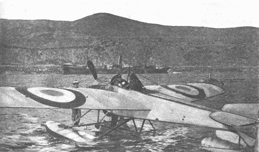 Fournet Artige sitting in a French Navy Nieuport VI.H hydroaeroplane in the harbour at Athens